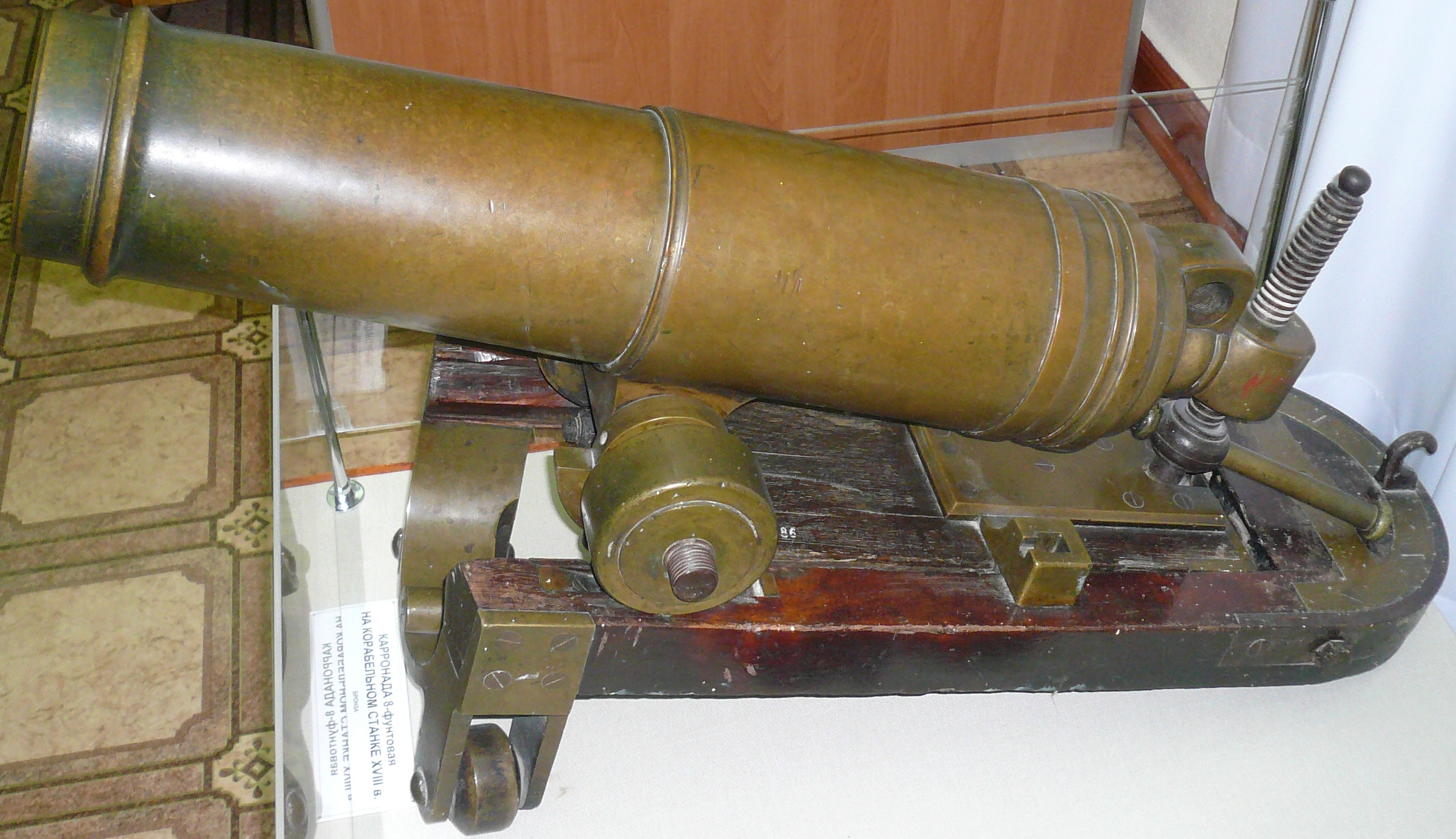 Carronade. 18 century.